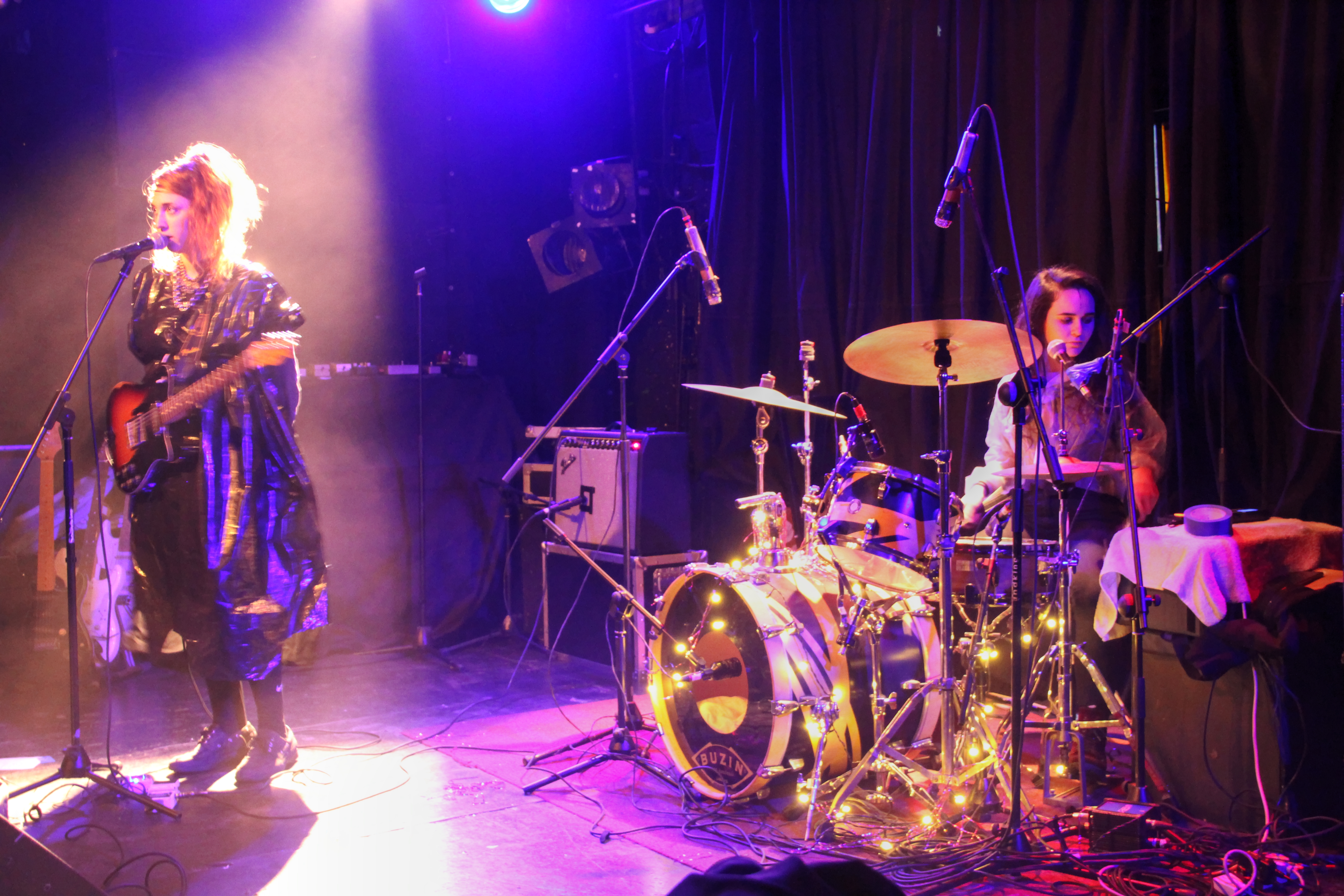 Deaf Chonky at a live performance, 2017